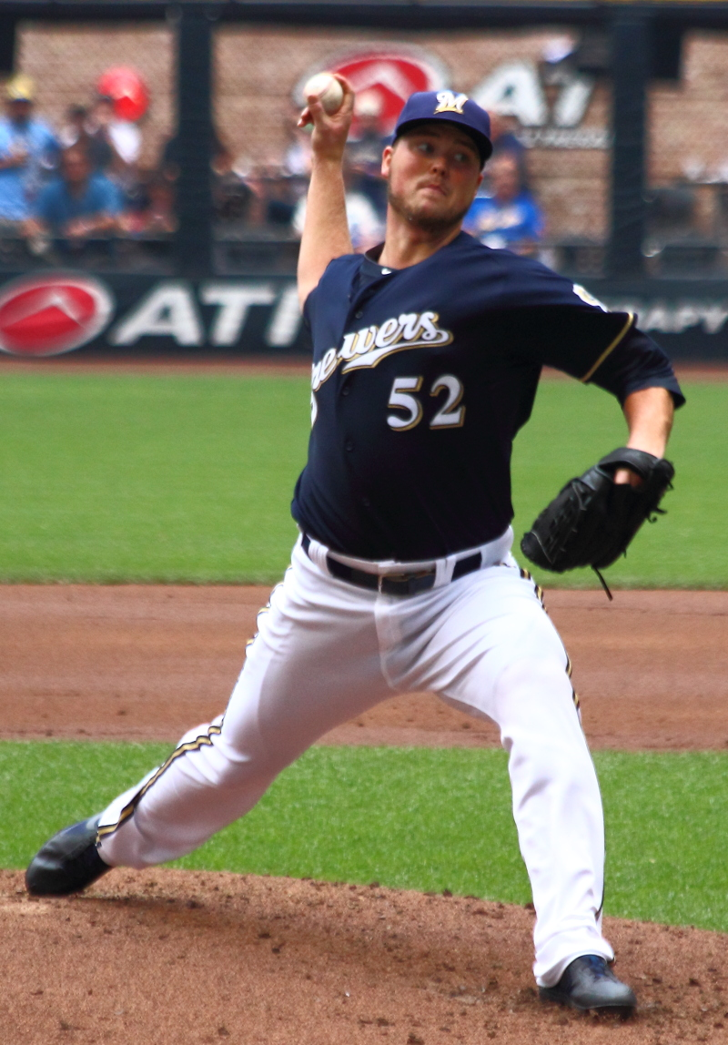 Jimmy Nelson pitches against the St. Louis Cardinals in a loss before the All Star break, July 2014.